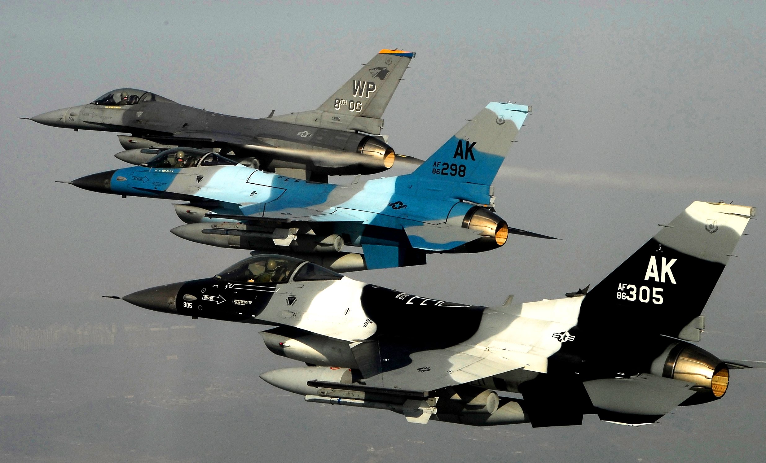 FORMATION TRAINING - Three U.S. Air Force F-16 Fighting Falcon Block 30 aircraft from the 80th Fighter Squadron fly in formation over South Korea during a training mission, Jan. 9, 2008. U.S. Air Force photo by Tech. Sgt. Quinton T. Burris